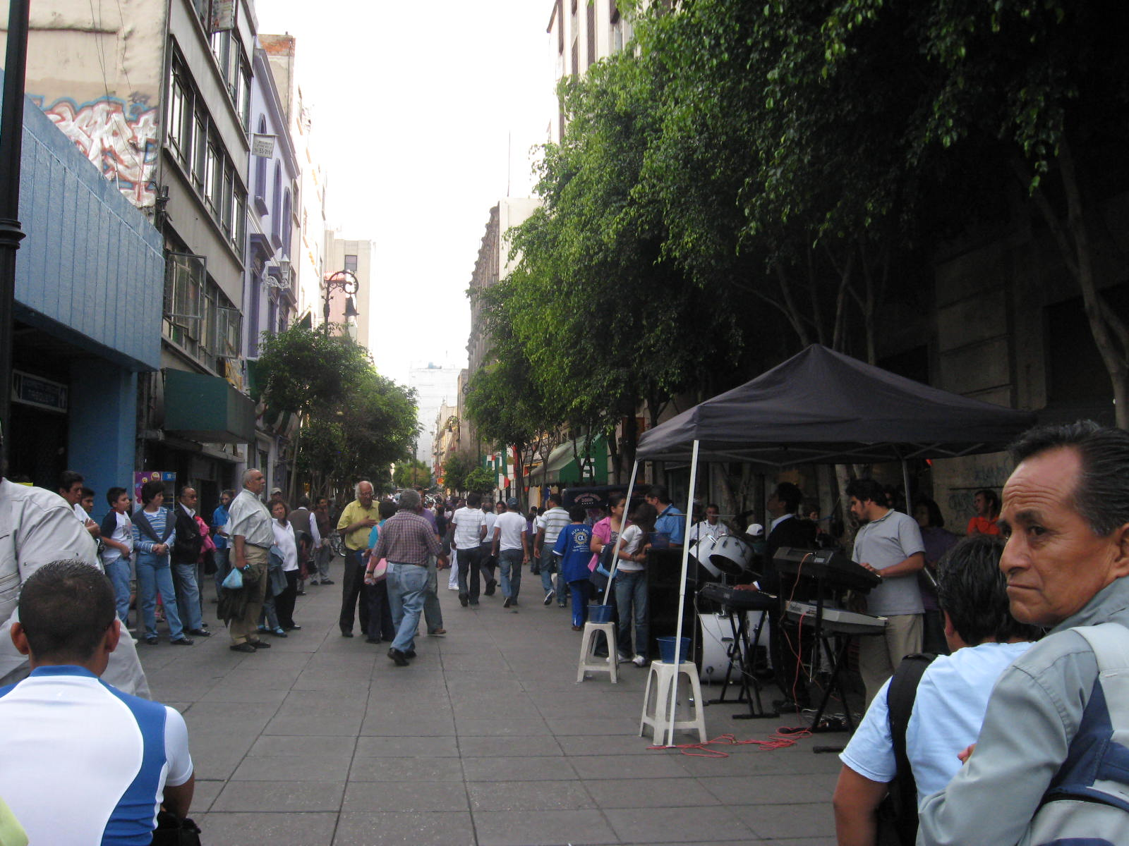 Allende Street in the Centro Historico of Mexico City. This section by Tacuba Street is open only to pedestrians